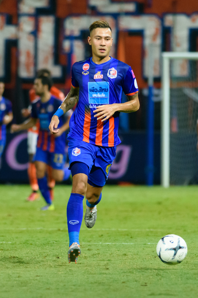 Kevin Deeromram during the Thai FA Cup Final 2019 vs Ratchaburi FC